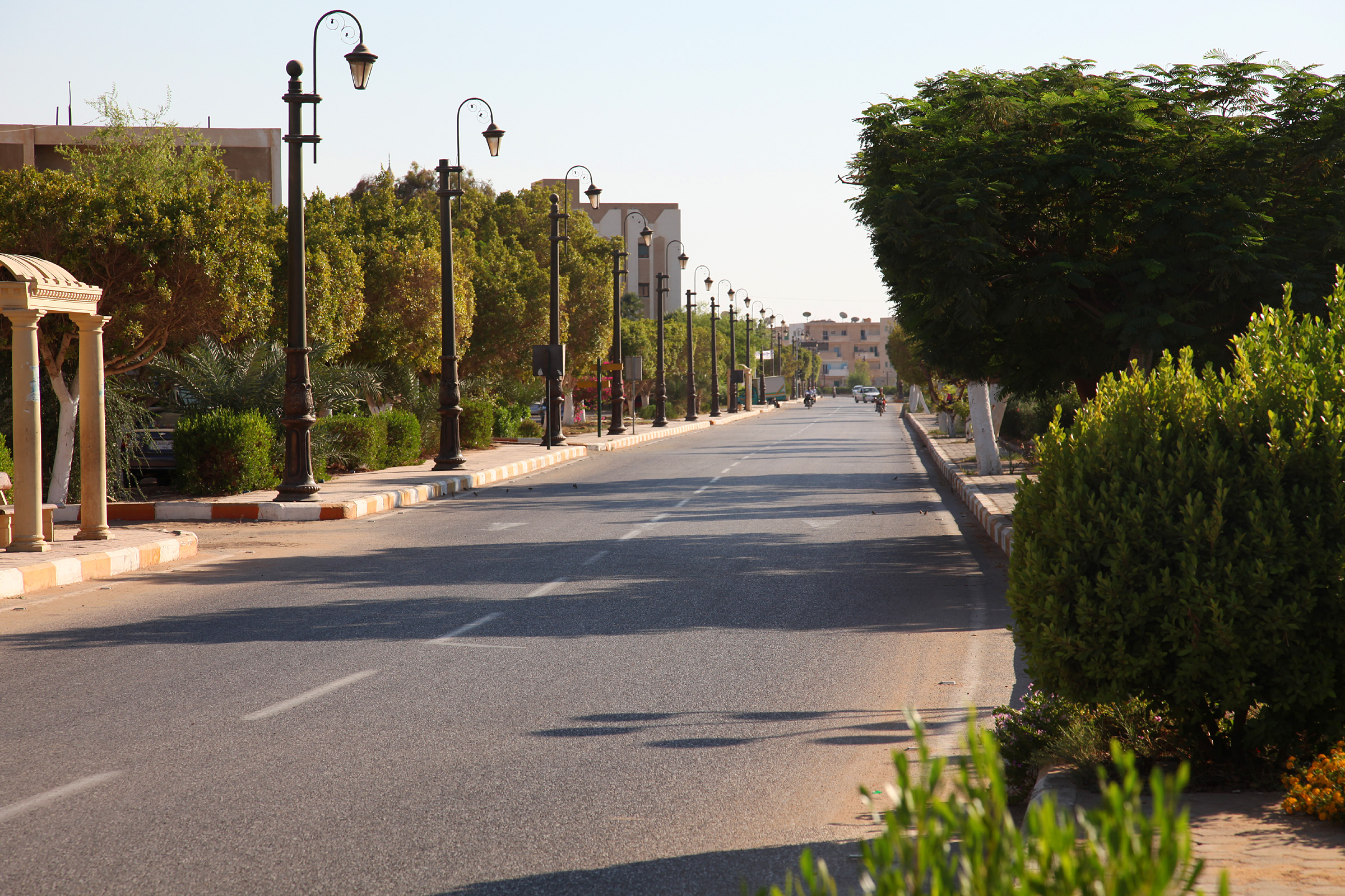 Gamal Abd el-Nasser street in the town of el-Kharga, Egypt, view to south